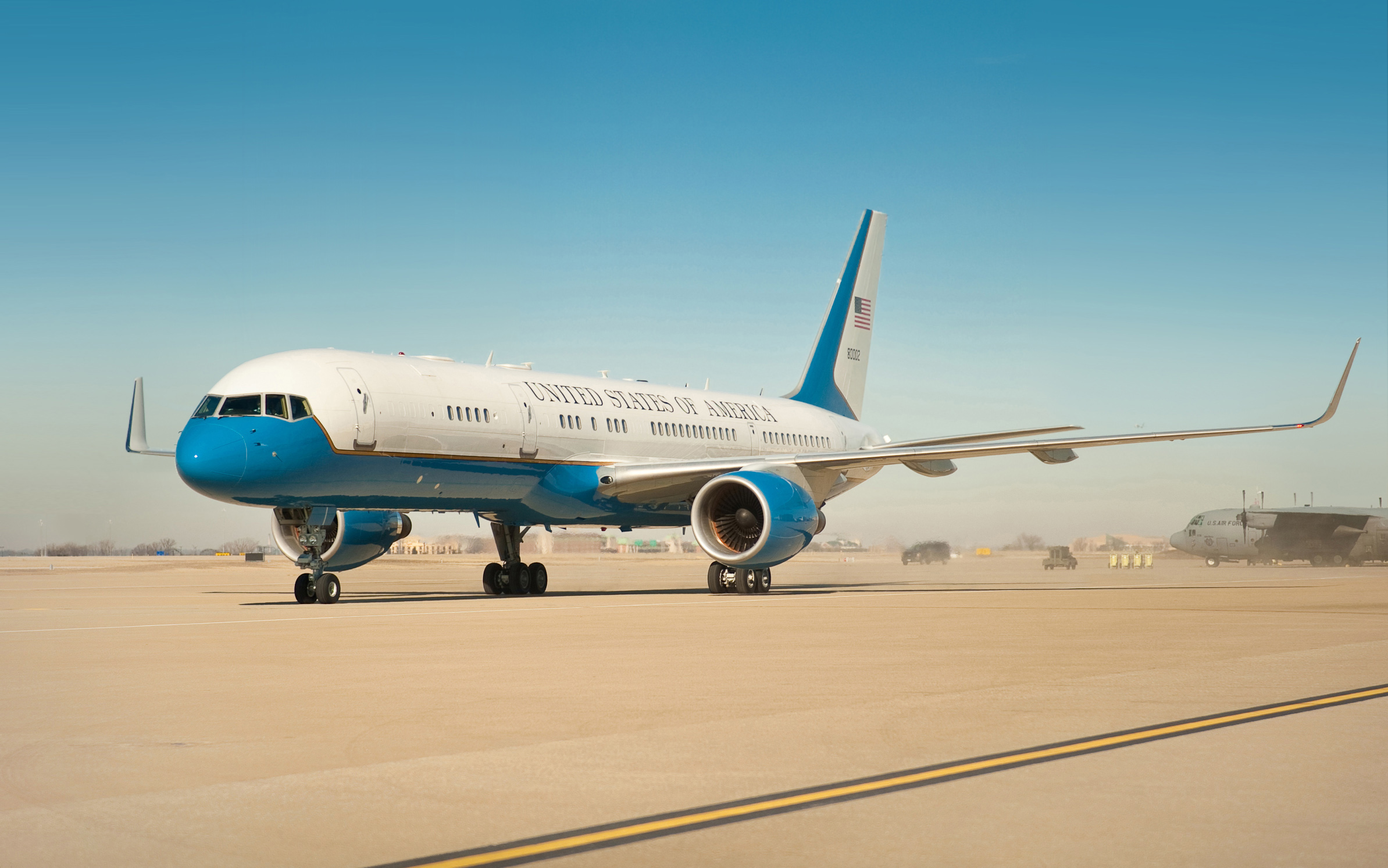 Air Force Two lands at the Kentucky Air National Guard Base in Louisville, Ky., on Feb 11, 2011.